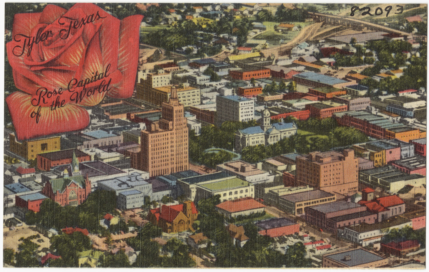 Postcard of Tyler, Texas, United States, titled "Tyler Texas, Rose Capital of the World".